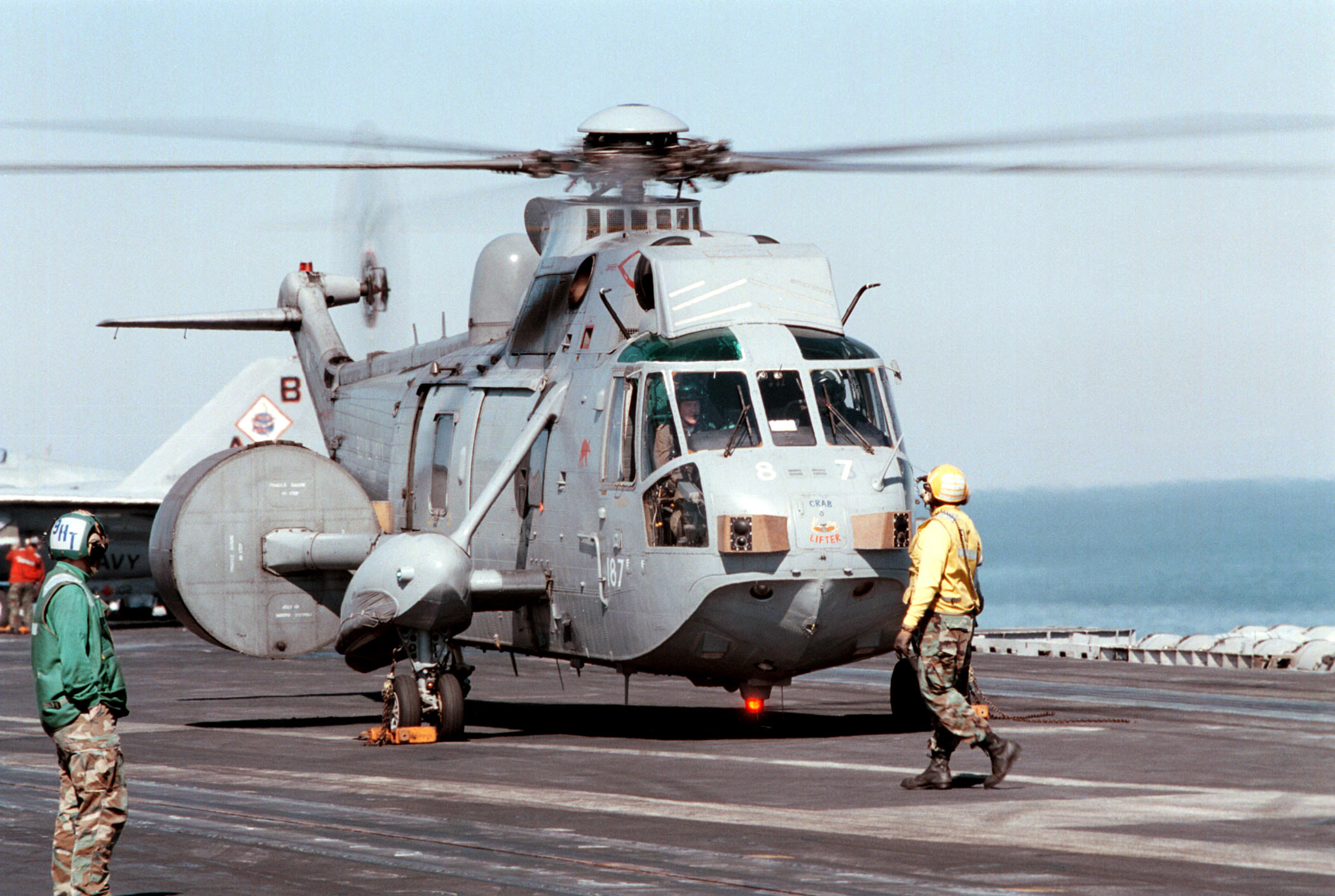 A Westland Sea King AEW.2A AEW-helicopter from the British Royal Navy 849 Squadron prepares to lift from the deck of the U.S. Navy aircraft carrier USS George Washington (CVN-73) on 24 Feb 1998. The George Washington was deployed to the Persian Gulf in support of Operation Southern Watch.